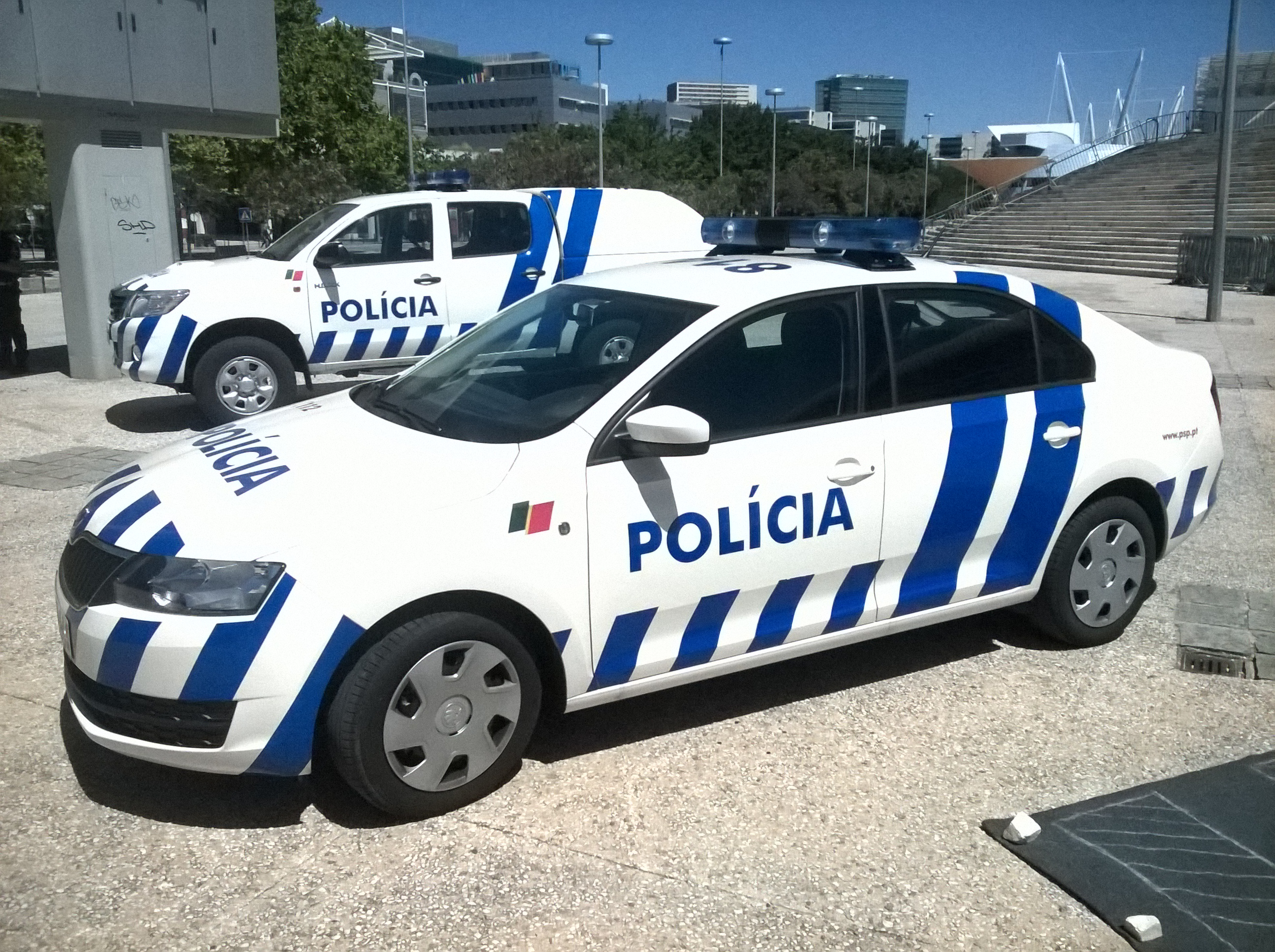 Portuguese Public Security Police vehicles with 2014 livery